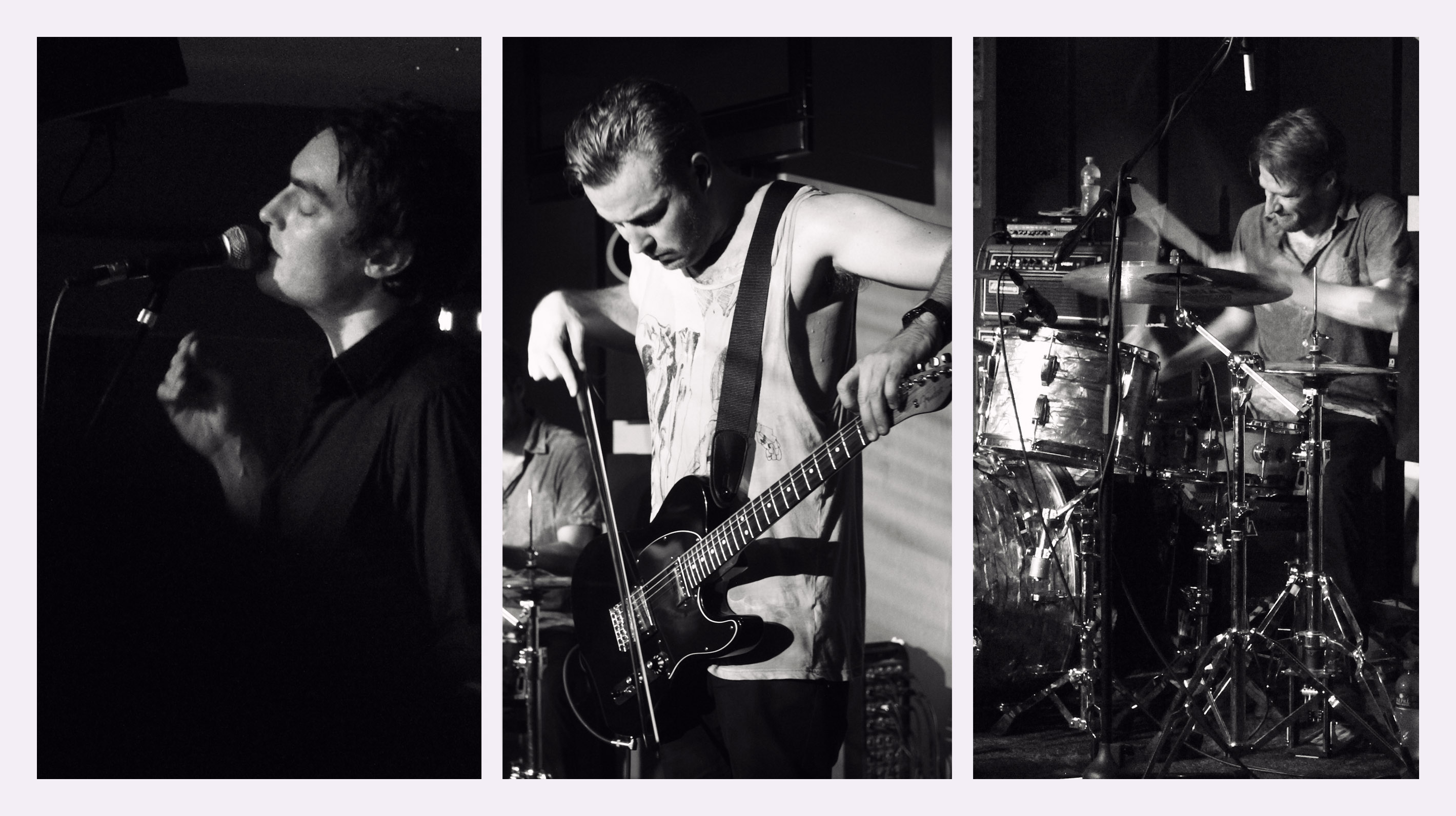 Civil Twilight performing at Tanz Cafe, (from left to right) Steven McKellar, Andrew McKellar, Richard Wouters